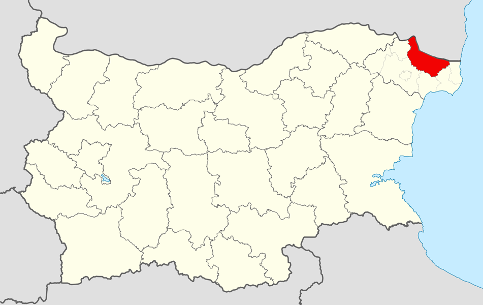 Location map of General Toshevo Municipality within Bulgaria and Dobrich Province. Equirectangular projection, N/S stretching 130 %. Geographic limits of the map: N: 44.4° N S: 41.1° N W: 22.1° E E: 28.9° E